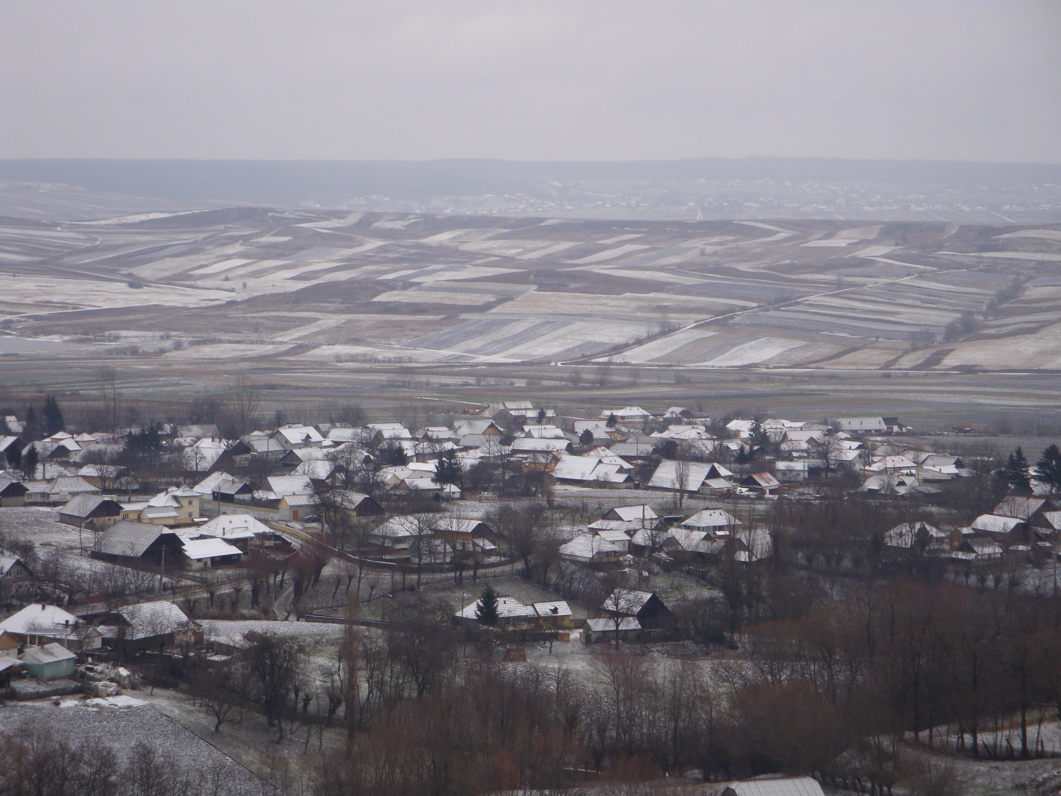 Winter landscape of Grănicești village, Suceava County, Romania